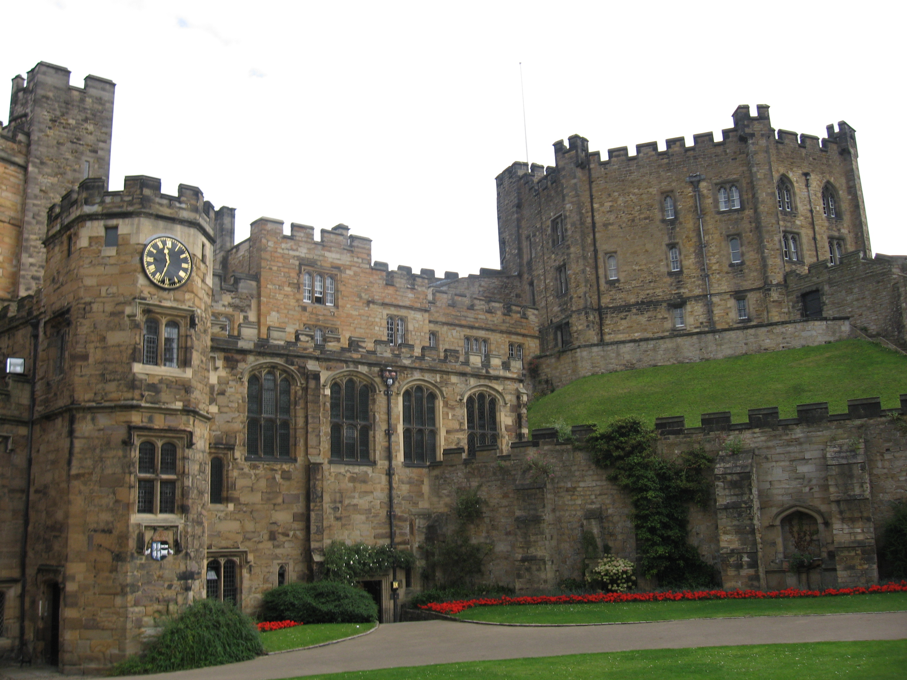 Durham Castle:The Keep and the Clocktower